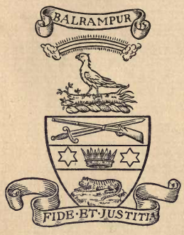 Coat of Arms of the Indian princly state of Balrampur